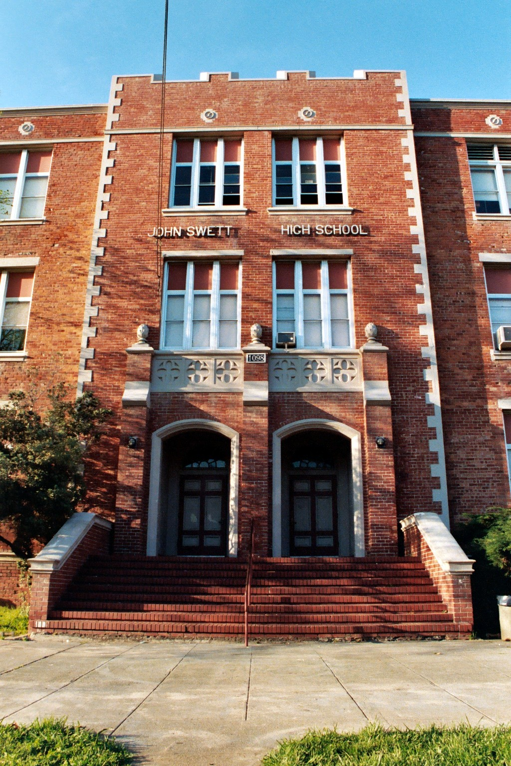 Front doors of John Swett High School in Crockett, California